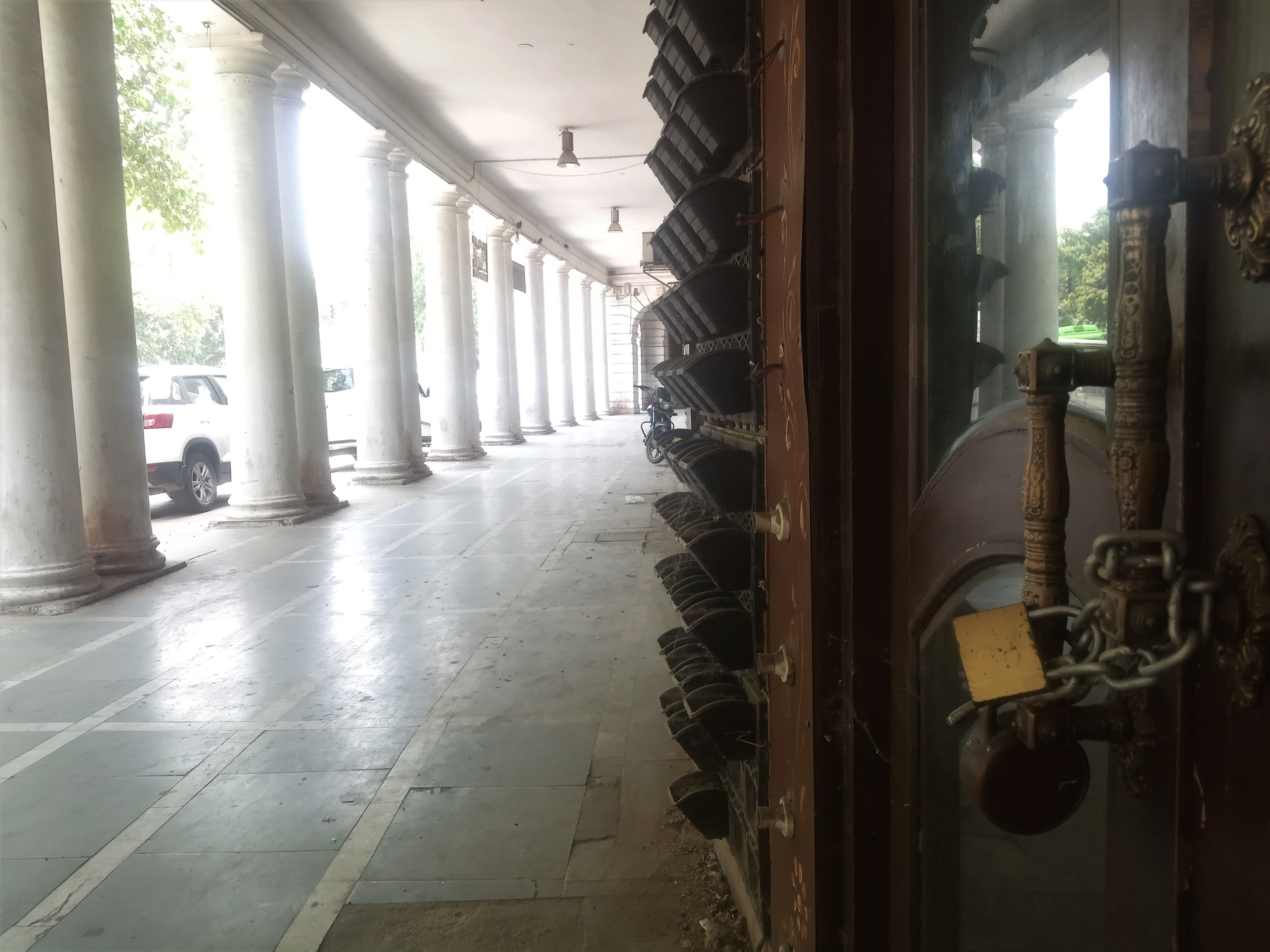 Socio economic impact during fourth phase of the lockdown because of COVID-19 pandemic in Delhi